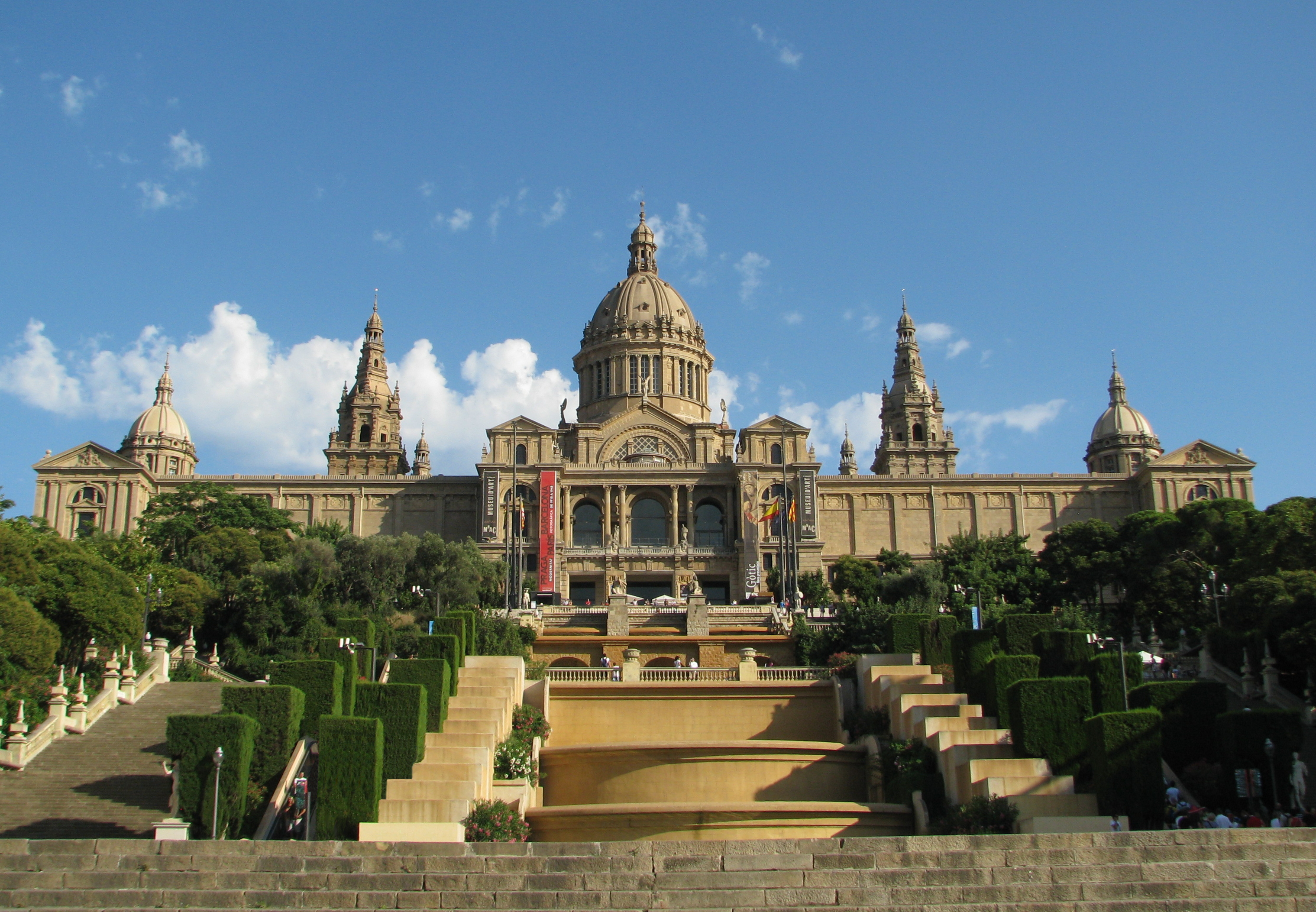 Museu Nacional d'Art de Catalunya (MNAC) in Barcelona.